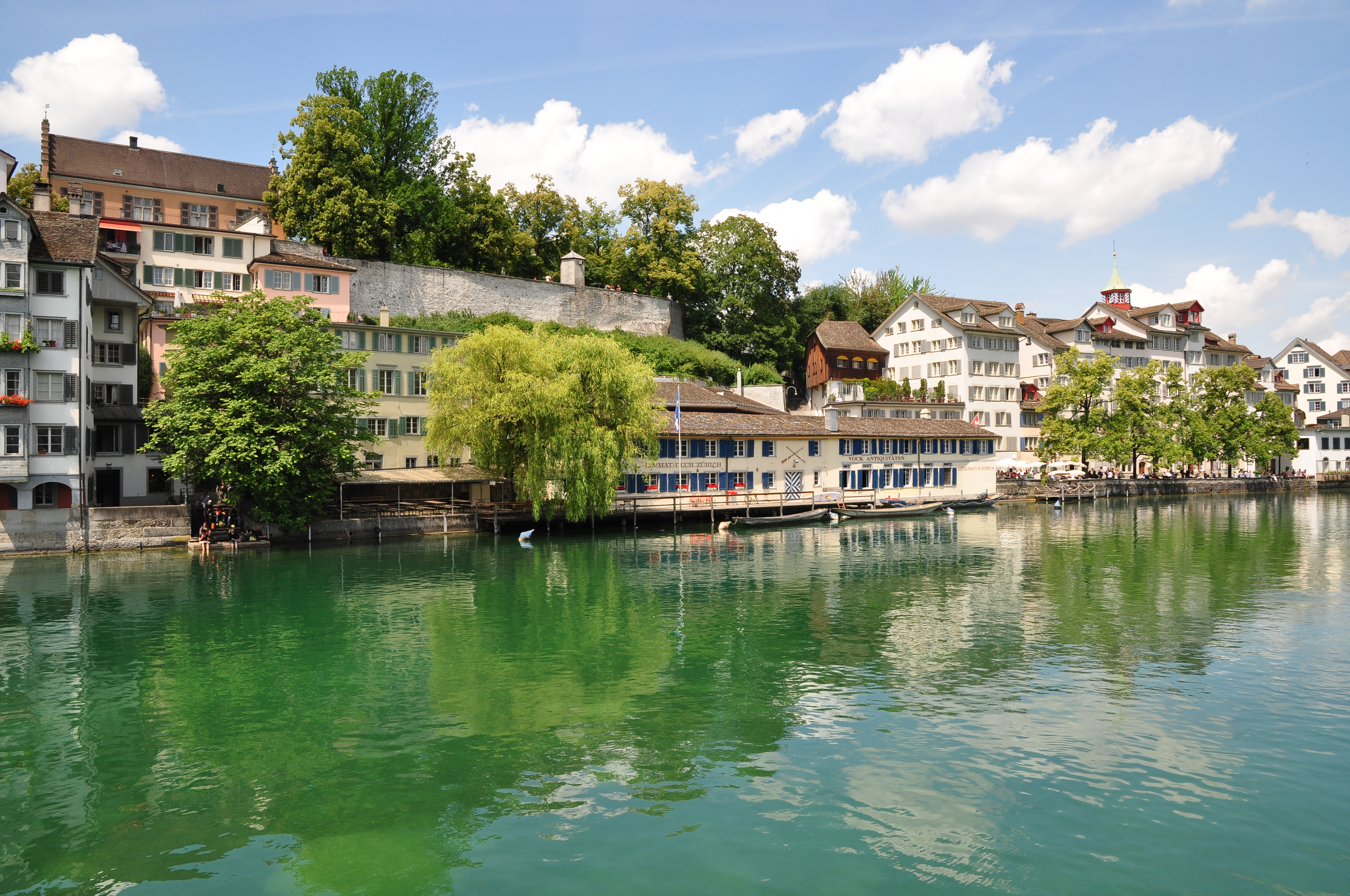 Zürich : Schipfe and Lindenhof hill, as seen from Limmatquai.